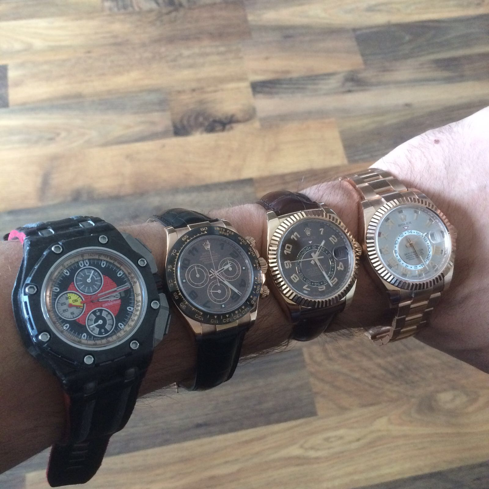 A beautiful shot of the Audemars Piguet ROO Carbon Fibre Grand Prix, Rolex Daytona rose gold, Rolex Skydweller on a brown leather strap and Rolex Skydweller sundust 326935